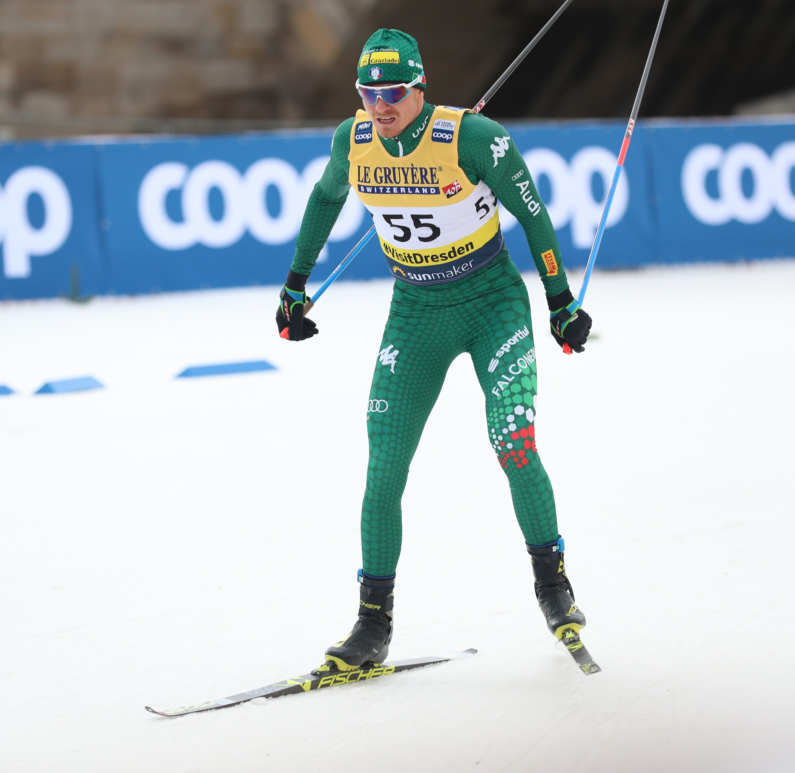 Men's Qualification at the FIS Cross-Country World Cup Dresden 2019 (1.6 km Free Sprint)